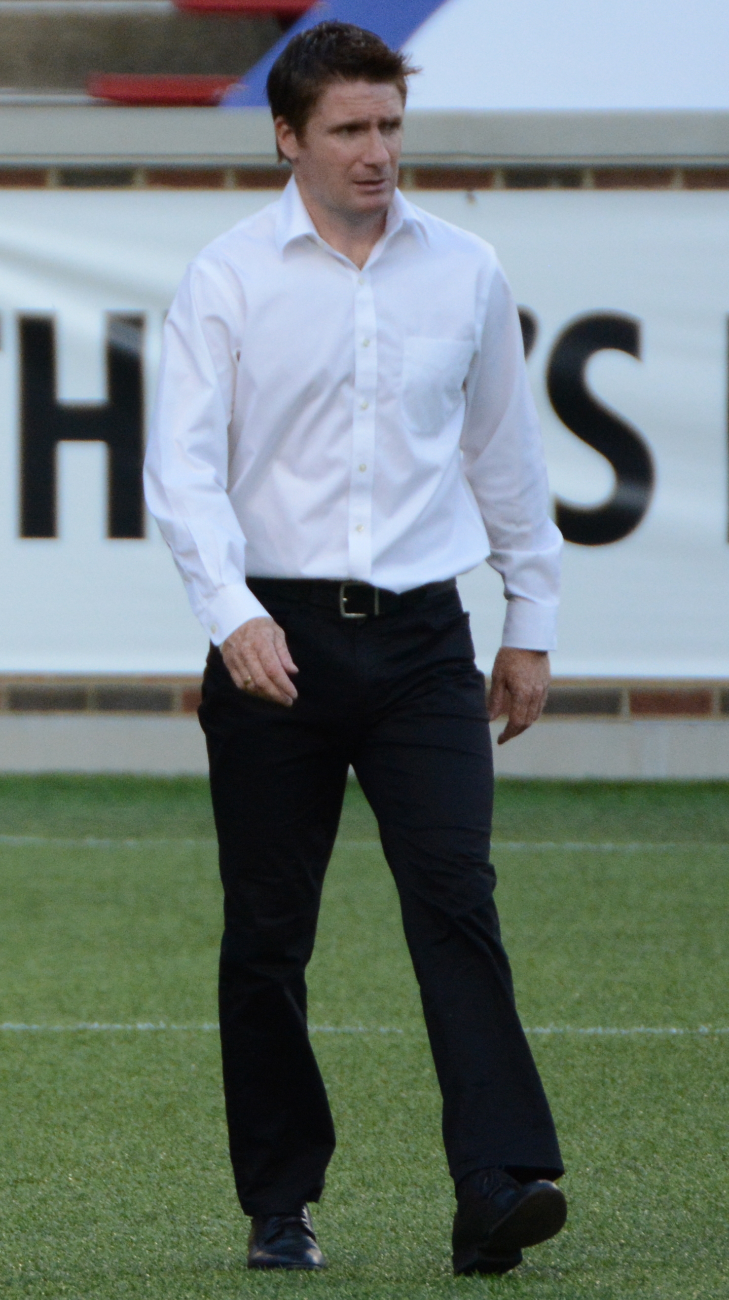 Daniel Byrd, James O'Connor Taken at a Lamar Hunt U.S. Open Cup match between FC Cincinnati and Louisville City FC at Nippert Stadium in Cincinnati, Ohio on May 31, 2017.